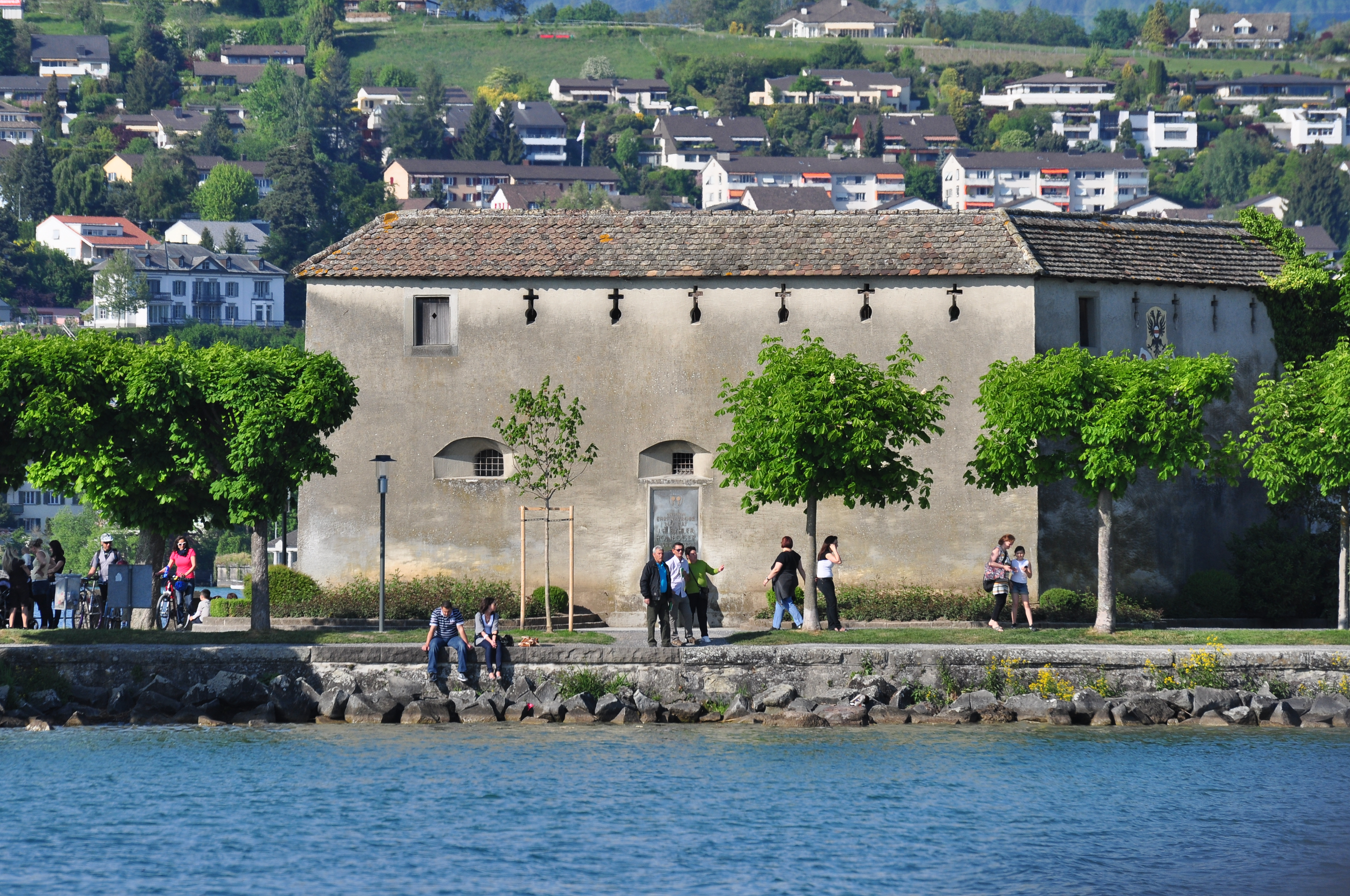 Fortifications at Endingerhorn in Rapperswil (Switzerland) as seen from Zürichsee-Schifffahrtsgesellschaft (ZSG) paddle steamship Stadt Rapperswil, Kempraten in the background.